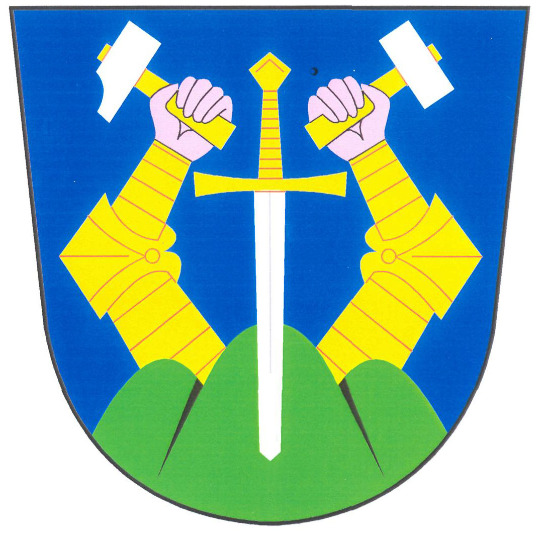 Municipal coat of arms of Hory village, Karlovy Vary District, Czech Republic.